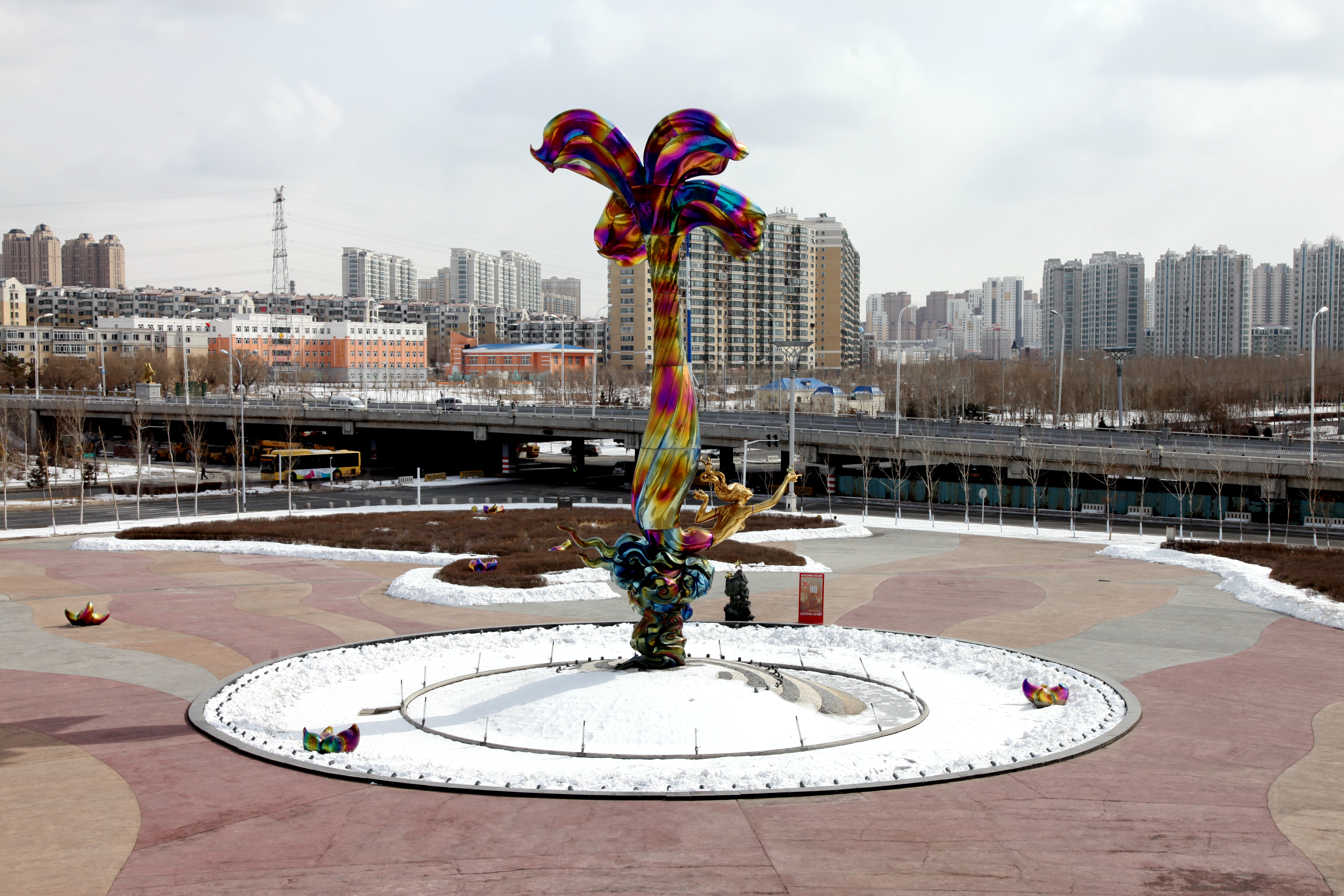 Lilac park in Harbin, Heilongjiang, China.